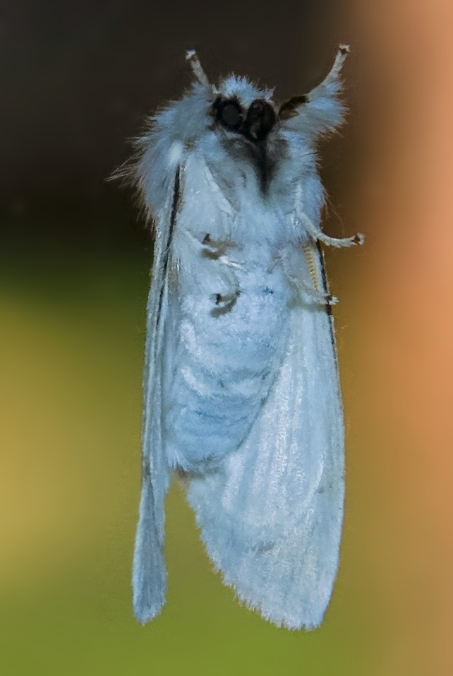 White Prominent - female -view from bottom